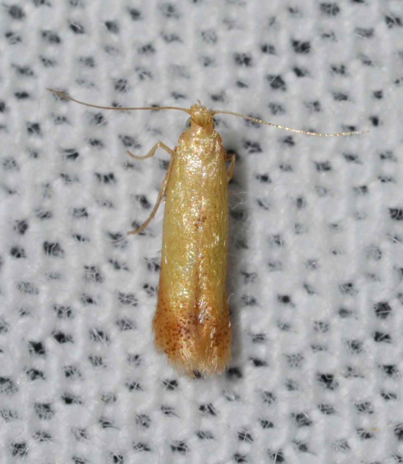 Mothing 8/5/14